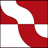 Blazon of Kradolf-Schönenberg, Canton of Thurgau, SwitzerlandEsperanto: Blazono de Kradolf-Schönenberg, Kantono Turgovio, Svislando